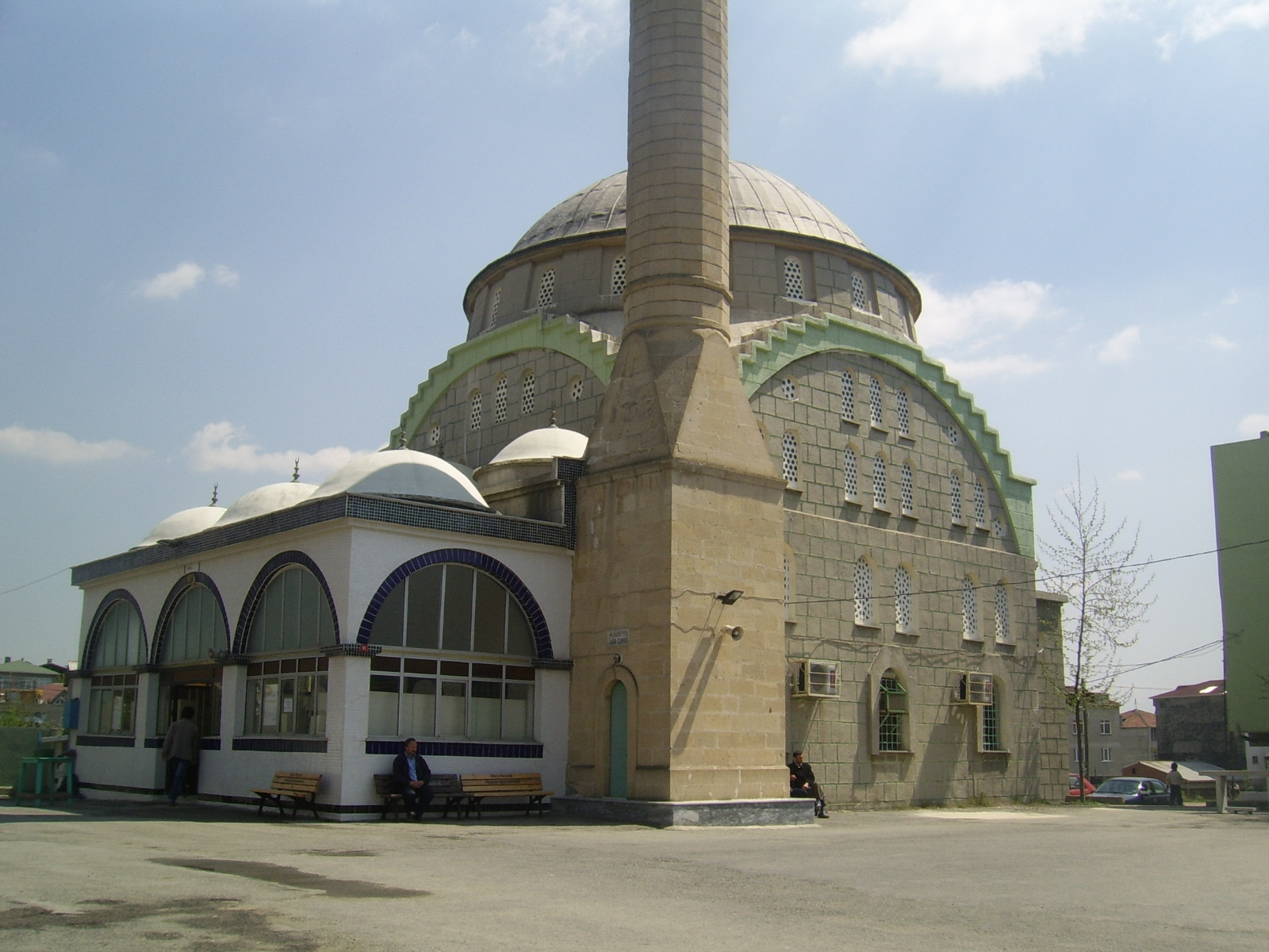 Hacı Hüseyin Ağa Mosque, Pendik.